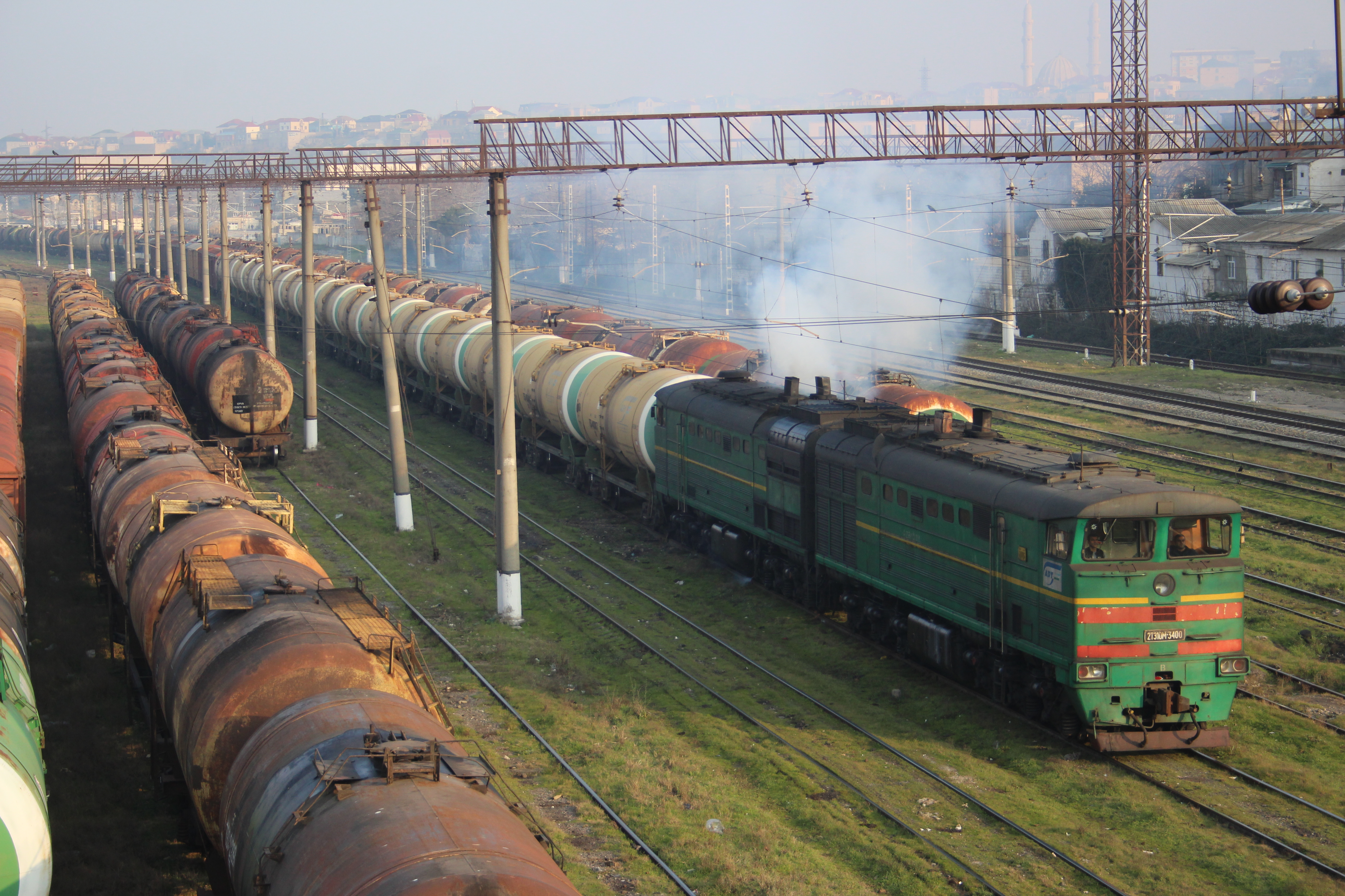 A heavy Soviet diesel locomotive, 2TE10M-3400 at Bilәcәri Cargo Yard, near Baku. This shot was taken from a bridge acccessible directly from the station at Bilәcәri.